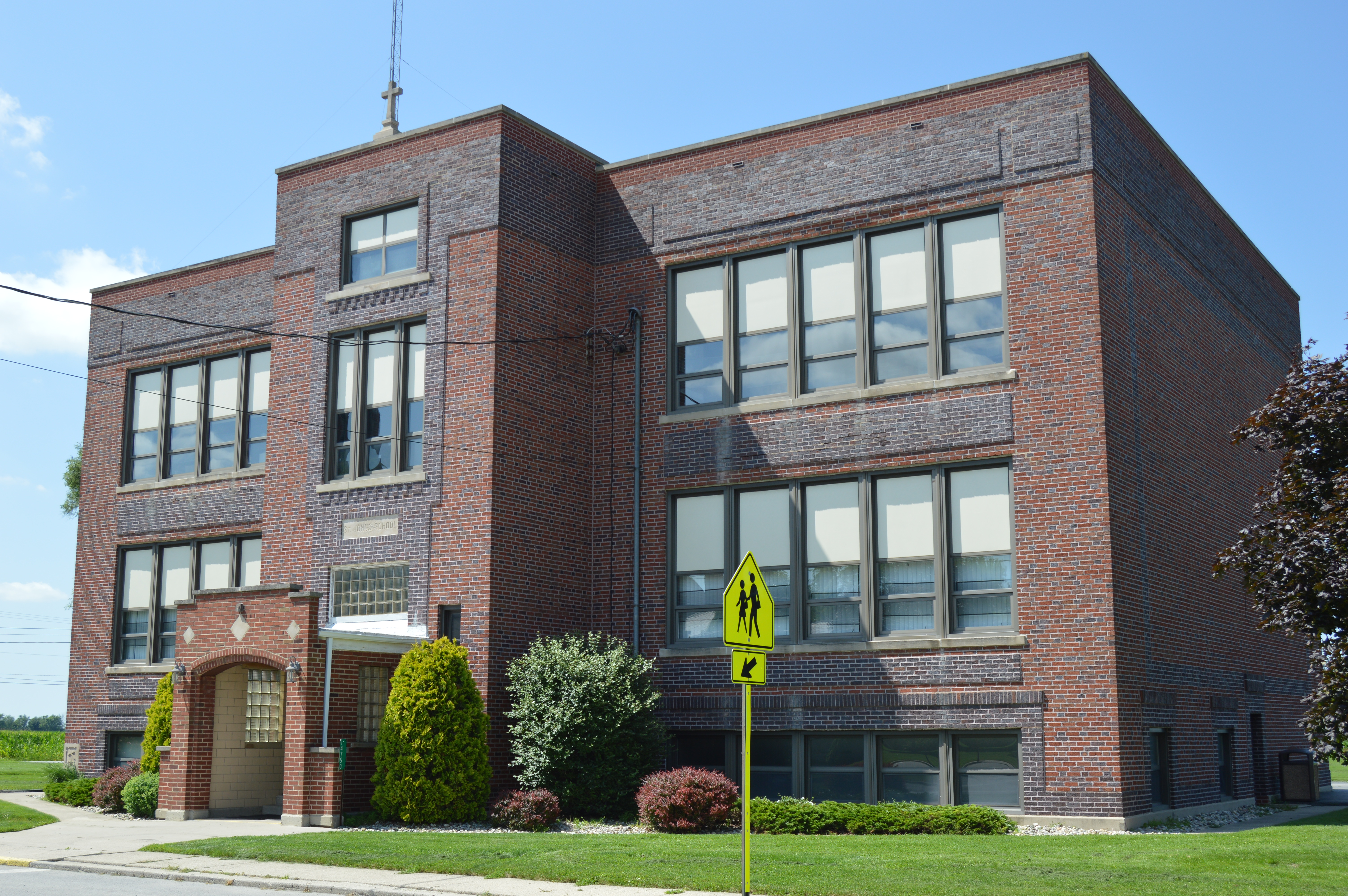 Front of the Landeck Elementary School (formerly the parish school of St. John the Baptist Church), located at 14750 Landeck Road in Landeck, Ohio, United States.